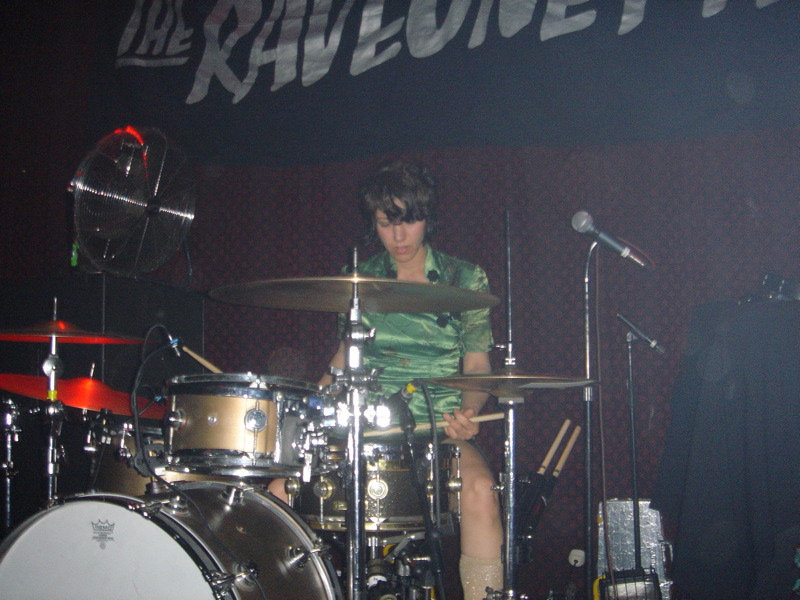 Autolux at the Orlando Social.